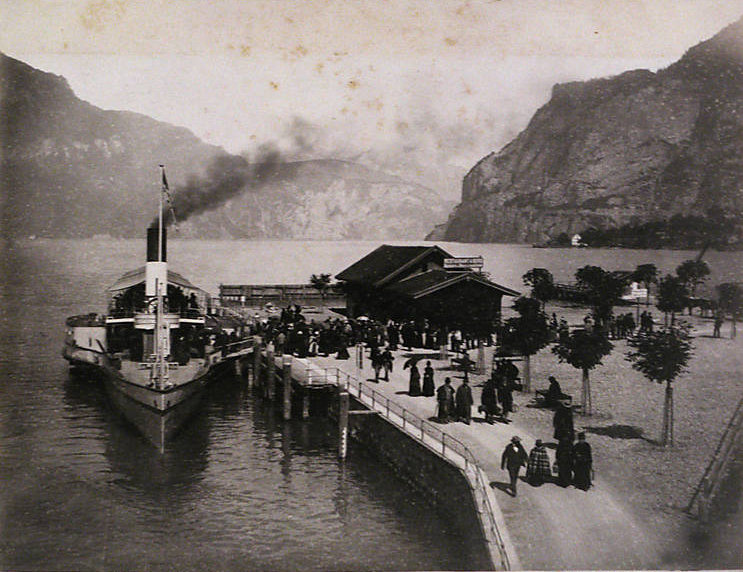 Giorgio Sommer (1834-1914) - "Flüelen". Catalogue # 12127. The ship is one of the two sister ships "Victoria" and "Schweiz", both built in 1870, seen around 1890.